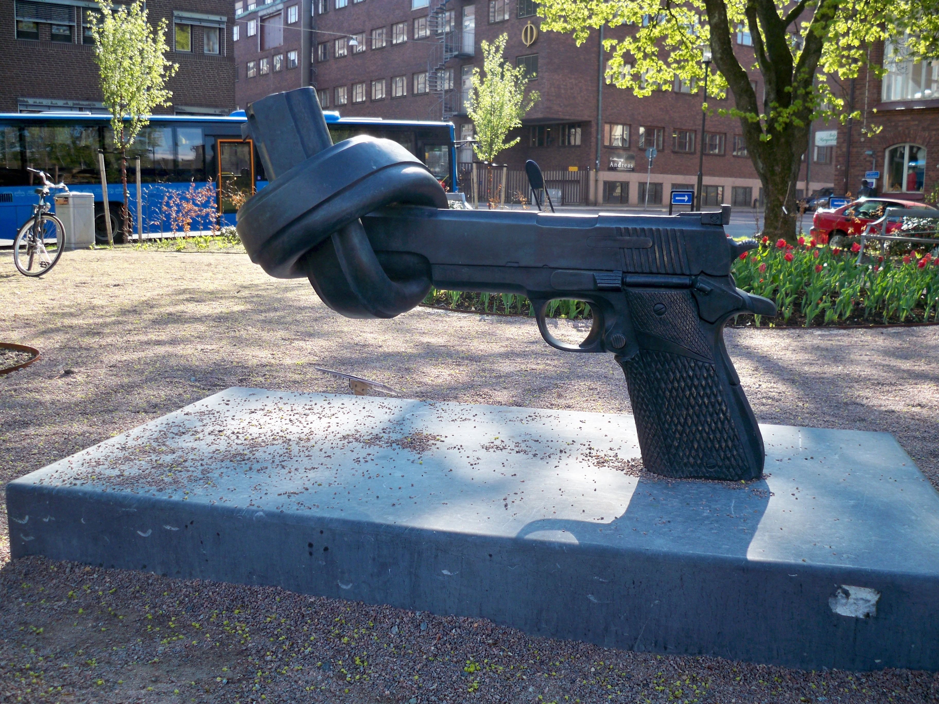 The outdoor sculpture Non-violence — by the Swedish artist Carl Fredrik Reuterswärd. Inaugurated in 2010 in Anna Lindhs park in Borås, Sweden, a park dedicated to the memory of Anna Lindh, Swedish Minister for Foreign Affairs assassinated on September 11, 2003.